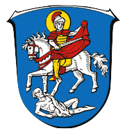 Coat of arms of Bad Orb